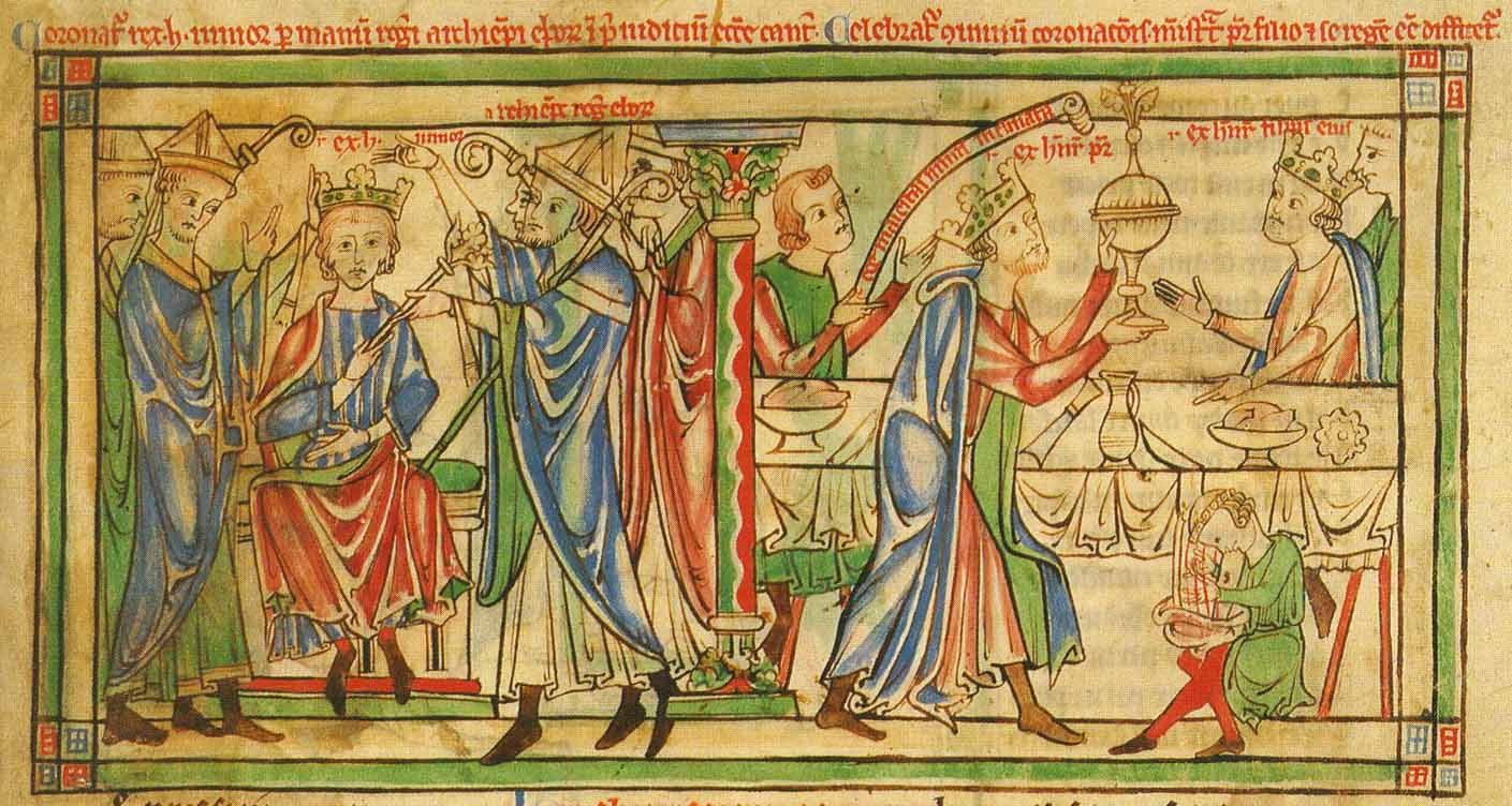 Left: Coronation of Henry the Young King by the Archbishop Roger of York (14 June 1170) Right: Henry II serves his son at the coronation feast. (The occasion inspired a famous anecdote about the banquet. Henry II wanted to serve his son in person. He approached the dias carrying what was with all probability the wild boar's head (the chief decoration of the high table, usual crowning of Christmas feasts and other festive dinners of the nobility) saying that it was not every day that a prince was served by a king. His freshly crowned son replied that it was nothing unusual for the son of a count to serve the king. - [1])